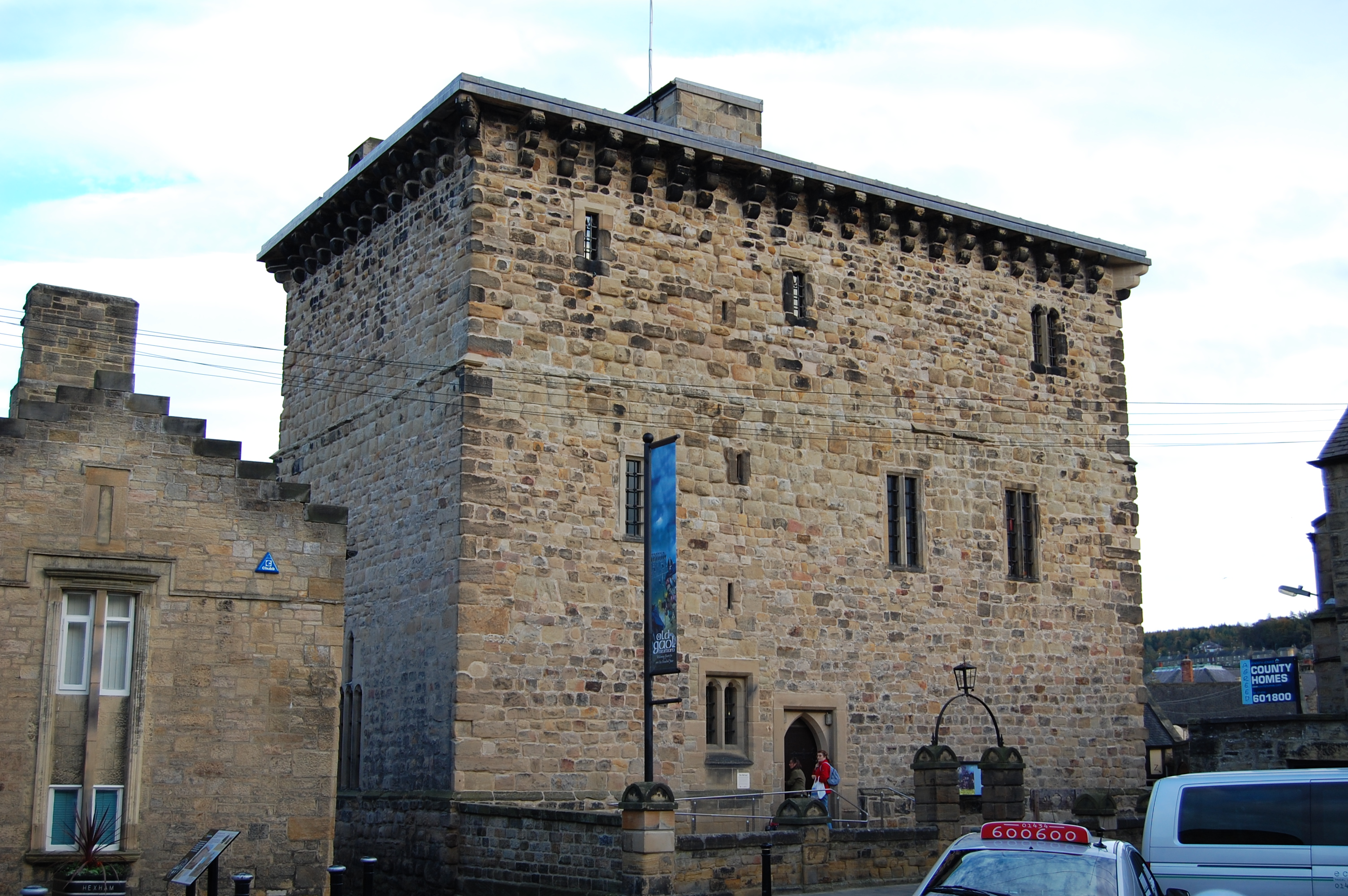 Hexham Gaol, said to be the oldest purpose-built prison in the United Kingdom. It's currently a prison museum.